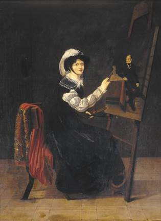 Self-portrait with a painting of Louis de Potter